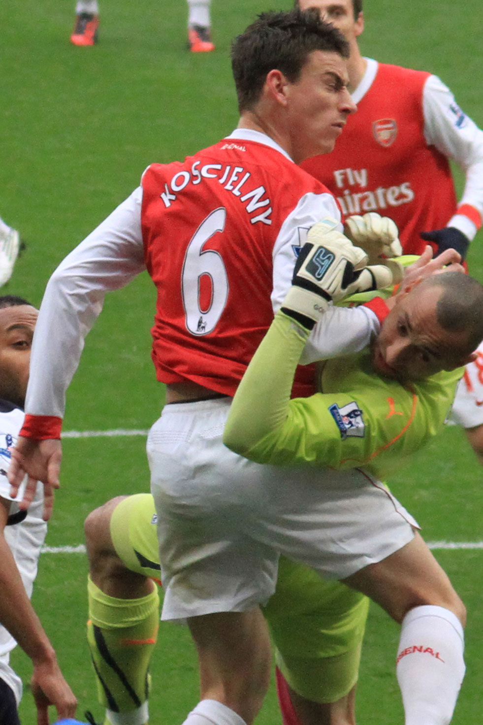 Laurent Koscielny (6) of Arsenal F.C. clashes with Heurelho Gomes of Tottenham Hotspur F.C. in November 2010. This file has been extracted from another file: Laurent Koscielny clashes with Heurelho Gomes.jpg